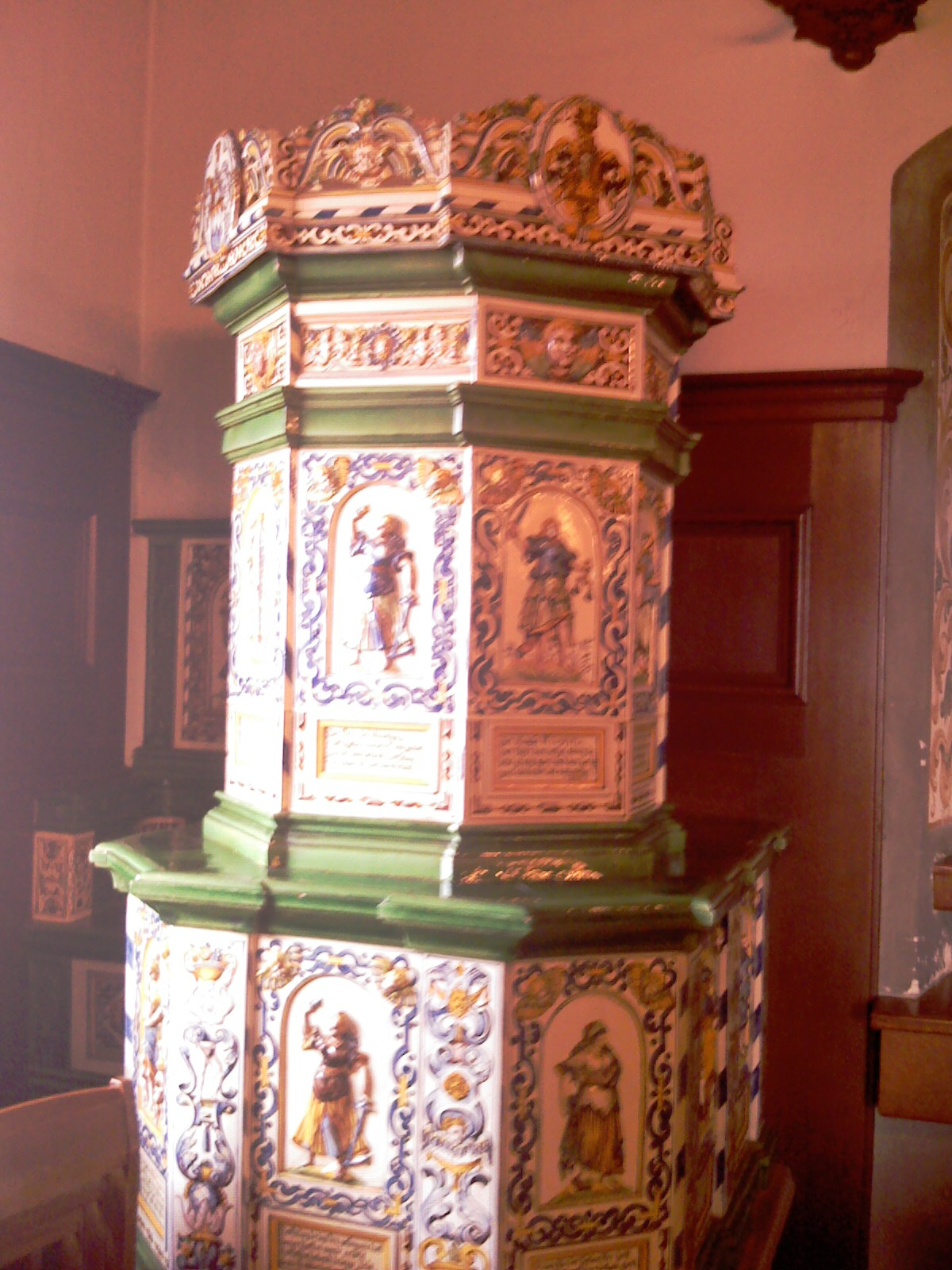 Castel Uster Tiled stove in the knight's hall